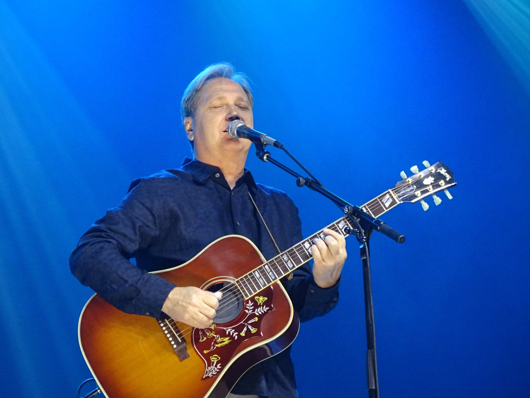 American country music singer Steve Wariner performing at a concert in Hopkinsville, Kentucky in 2019